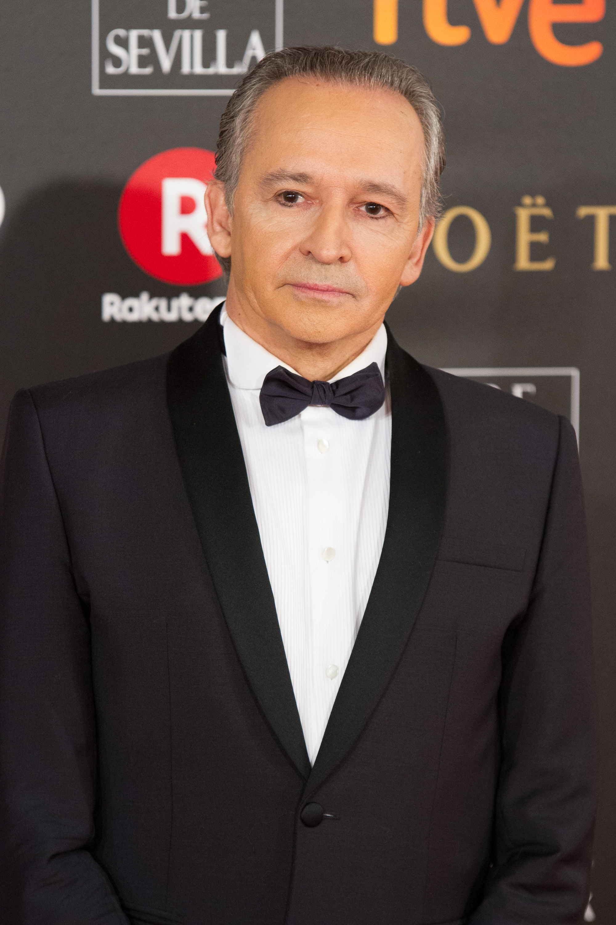 32nd Goya Awards, 2018.